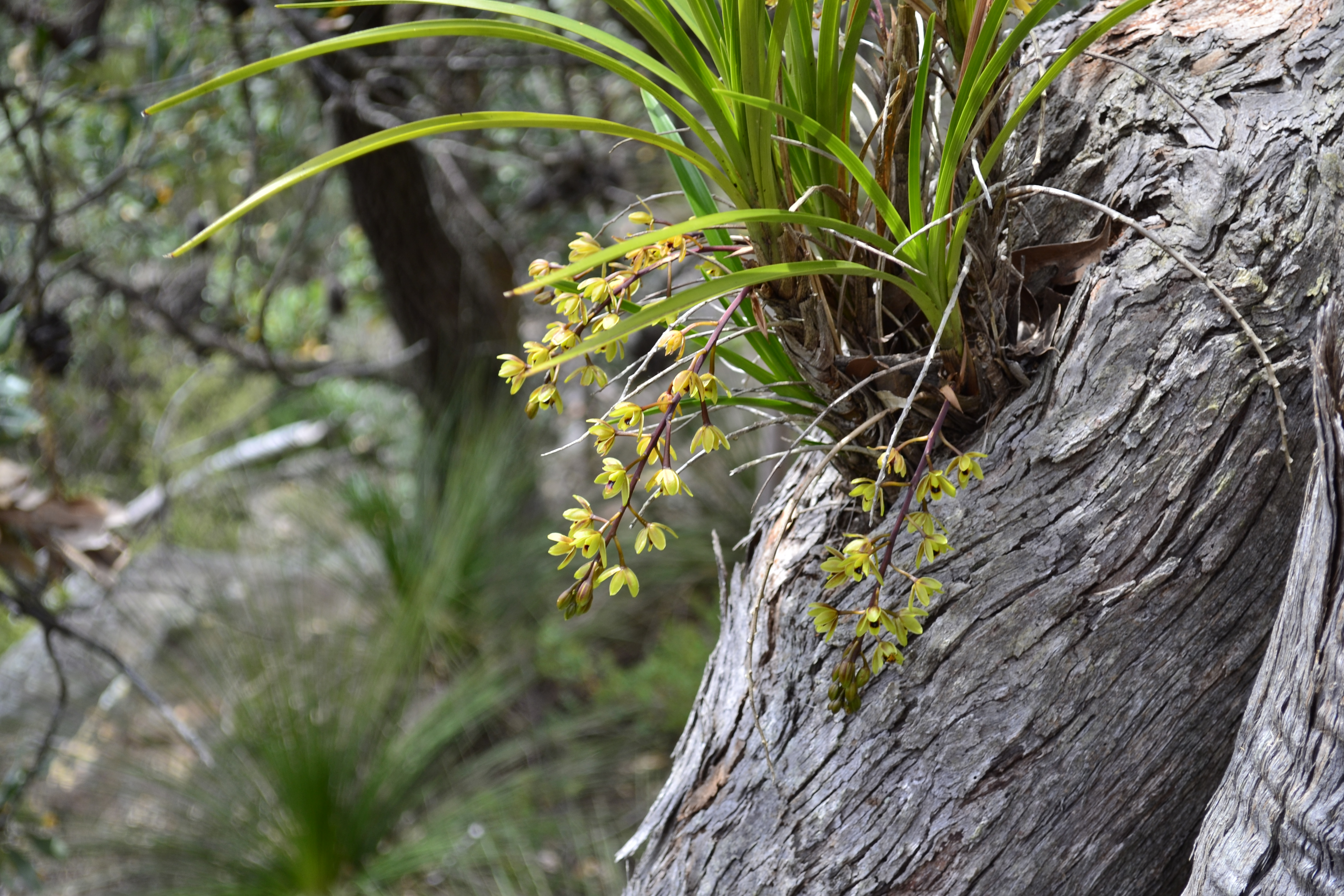 only one in the area and close to the picnic spots